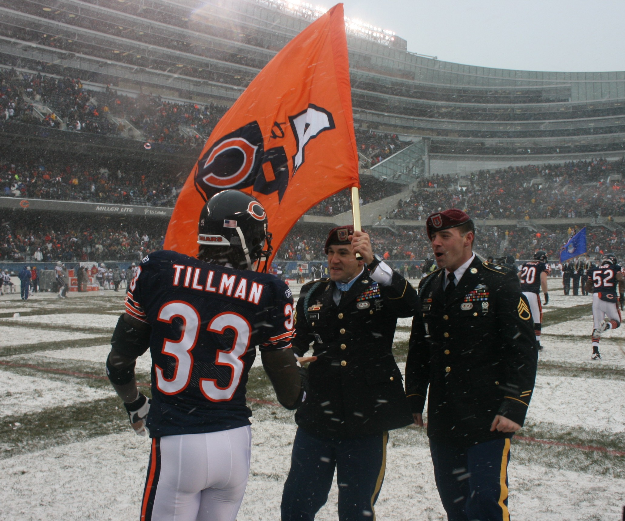 Medal of Honor recipient Staff Sgt. Salvatore A. Giunta meets with Charles Tillman of the Chicago Bears before Chicago's game against the New England Patriots on Dec. 12.